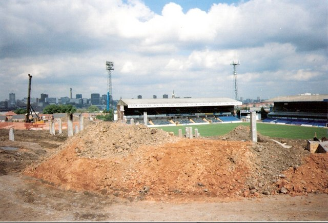 St Andrews home of Birmingham City FC. Building the new kop stand.